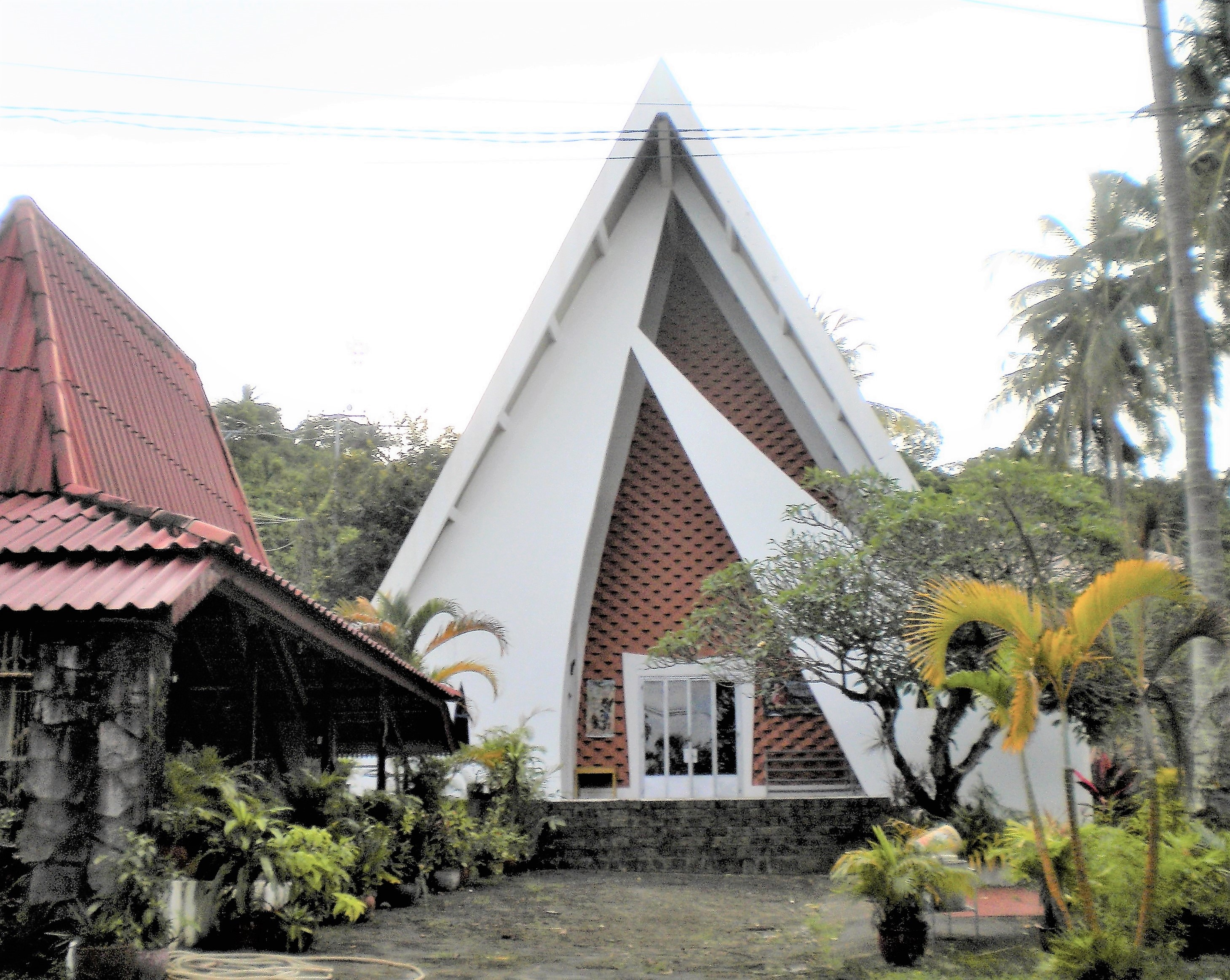 a frontal image of St. Michael Catholic Church in Sihanoukville, October 2014